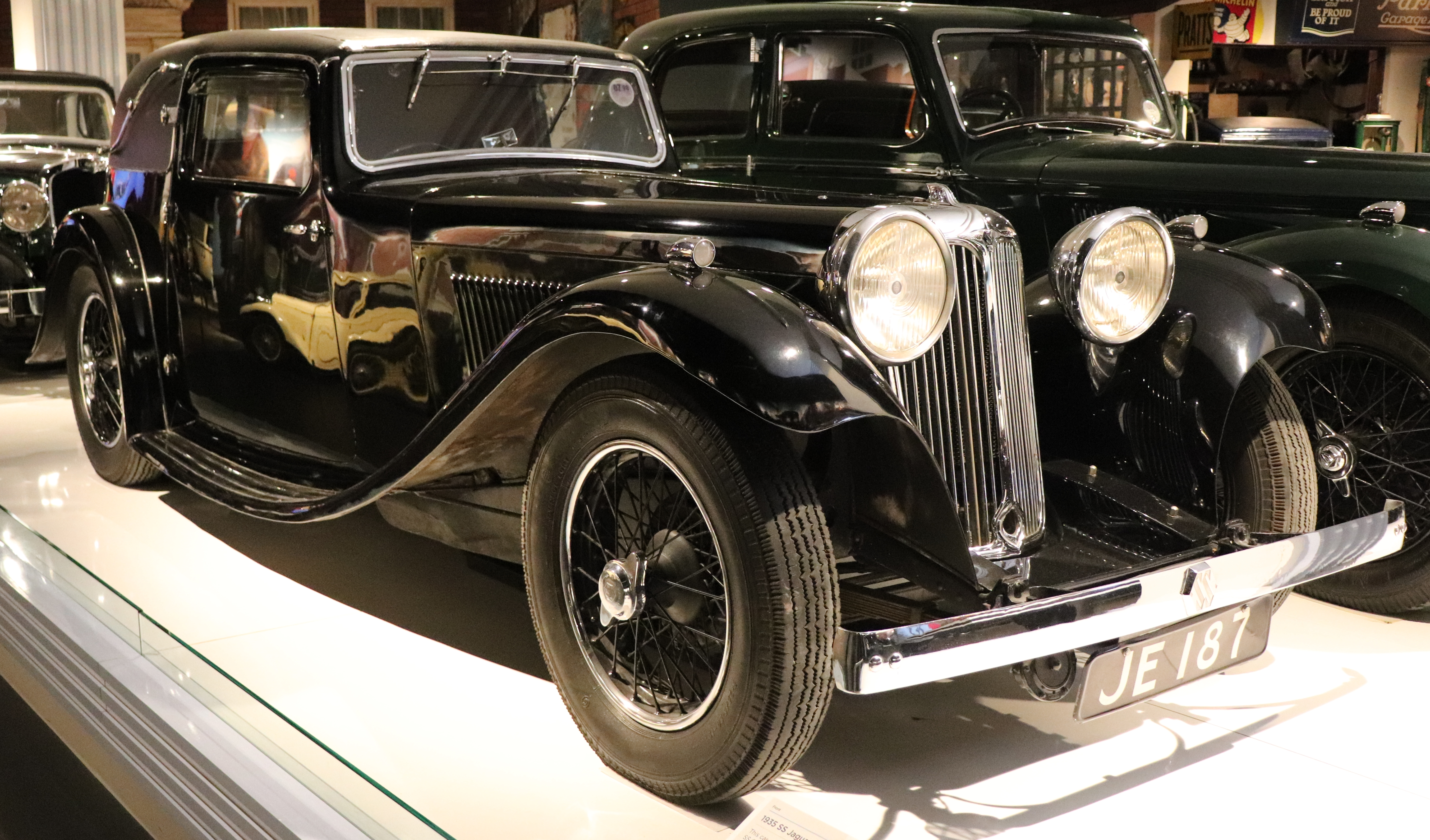 1933 SS 1 16HP Fixed Head Coupe Front Taken in the Coventry Transport Museum